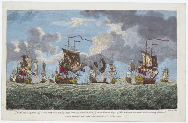 The Glorious Action off Cape Francois Oct.r 21.st 1757 between three English, & seven French Ships of War wherein the latter were entirely defeated. The Battle of Cap-Français (present day Cap-Haïtien, Haiti) during the Seven Years' War in which Commodore Forrest was commanded to intercept a French convoy in the Caribbean, bound for France. By the time of the British attack, the French convoy had been reinforced. The outcome was tactically indecisive (contrary to the legend beneath this print), but the bravery of the British in fighting against heavy odds saw the battle remembered as a 'glorious action'. From of a series of prints made from paintings recording celebrated naval battles by marine painter Francis Swain (c.1719-82) which were probably reduced copies of other engravings issued by the same publisher. Printed for Rob.t Sayer, Print & Mapseller, No.53 in Fleet Street. 180 x 280mm (7 x 11")